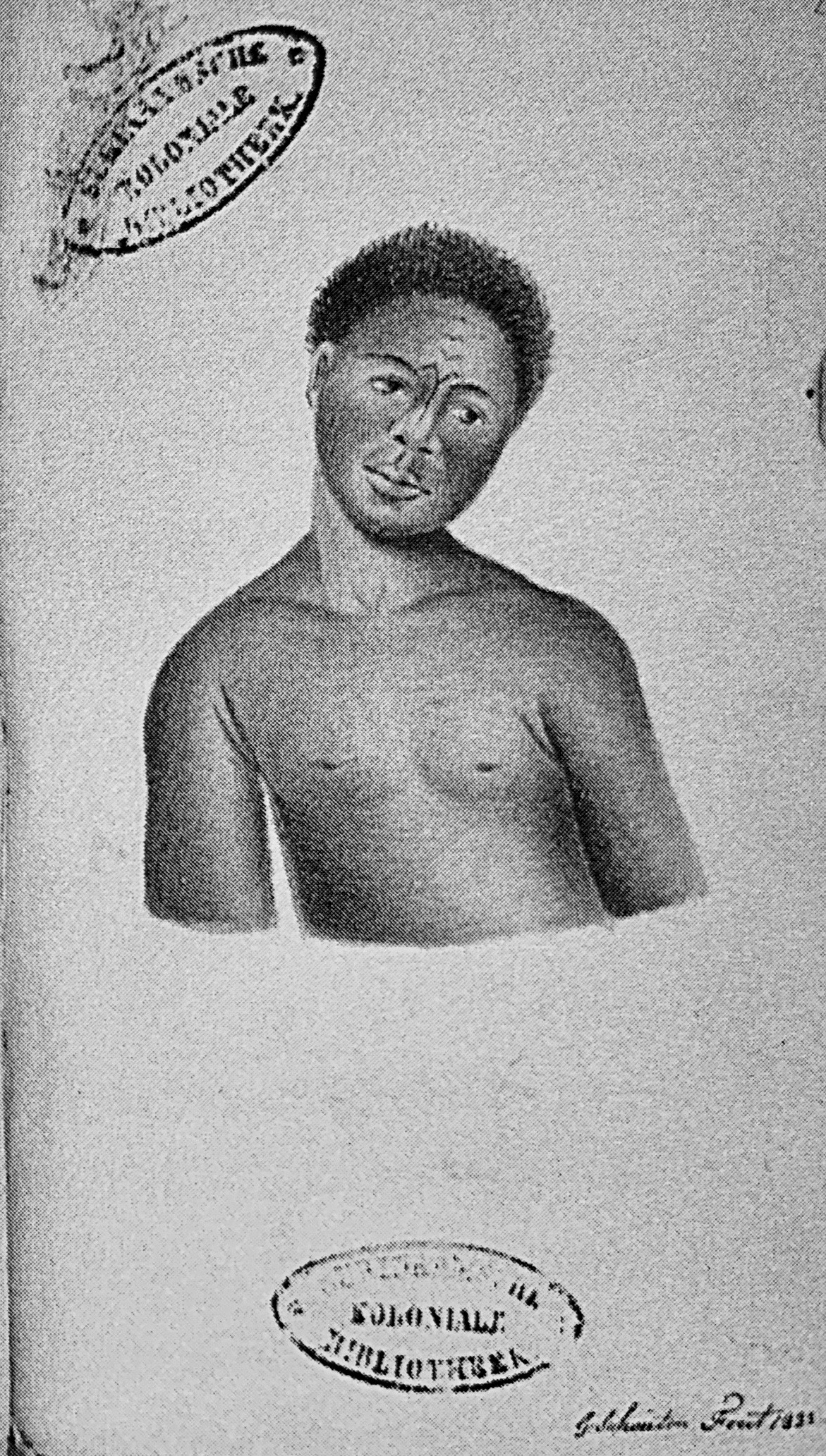 Mentor was one of the three men who were convicted for the great city fire of Paramaribo (1832). The fire destroyed in a short time about 50 houses and the Lutheran church. The complete drawing includes the the portraits of the two other convicts Cojo (Kodjo) and Present and was made by the Surinamese artist Gerrit Schouten on January 24, 1833 and was later found among the papers of the President of the Court of Justice, judge Adriaan François Lammens.